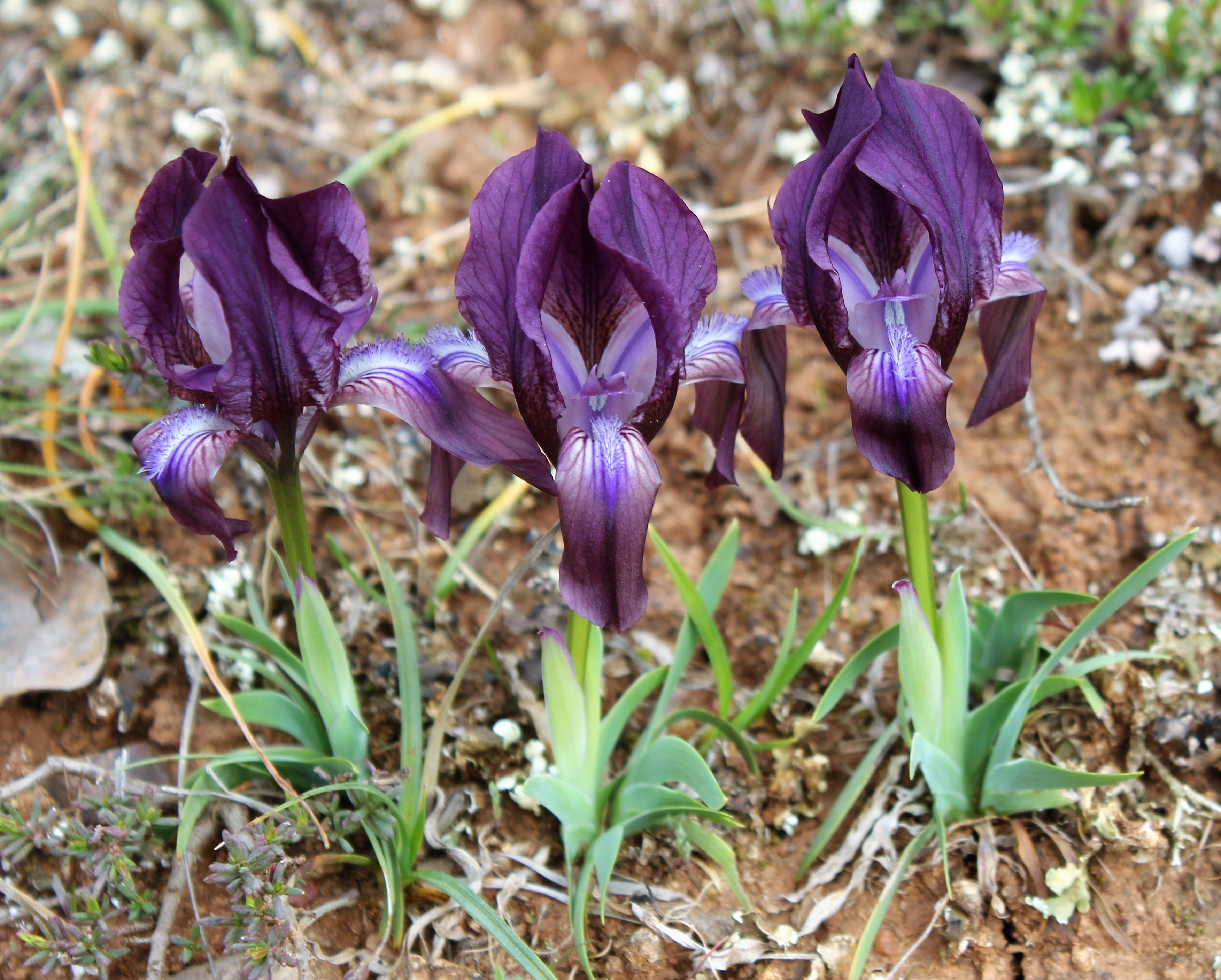 Iris suaveolens purple